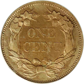 1856 Cent, Flying Eagle, Reverse